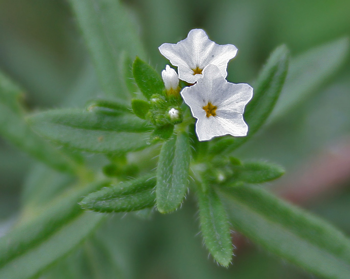 Heliotropium strigosum (syn. H. constrictum, H. longifolium, H. pygmaeum) in Keesara, Rangareddy district, Andhra Pradesh, India.